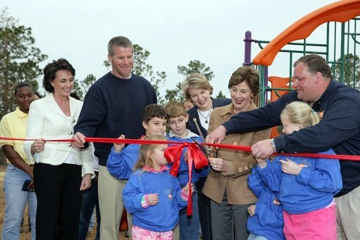 Laura Bush attends a ribbon cutting ceremony| with football player Brett Favre and his wife, Deanna, left, Secretary Margaret Spellings, center, Dan Vogel, Associate Director, USA Freedom Corps, right, and student of Hancock North Central Elementary Shool at the Kaboom Playground, built at the Hancock North Central Elementary School in Kiln, Ms., Wednesday, Jan. 26, 2006, during a visit to the area ravaged by Hurricane Katrina.